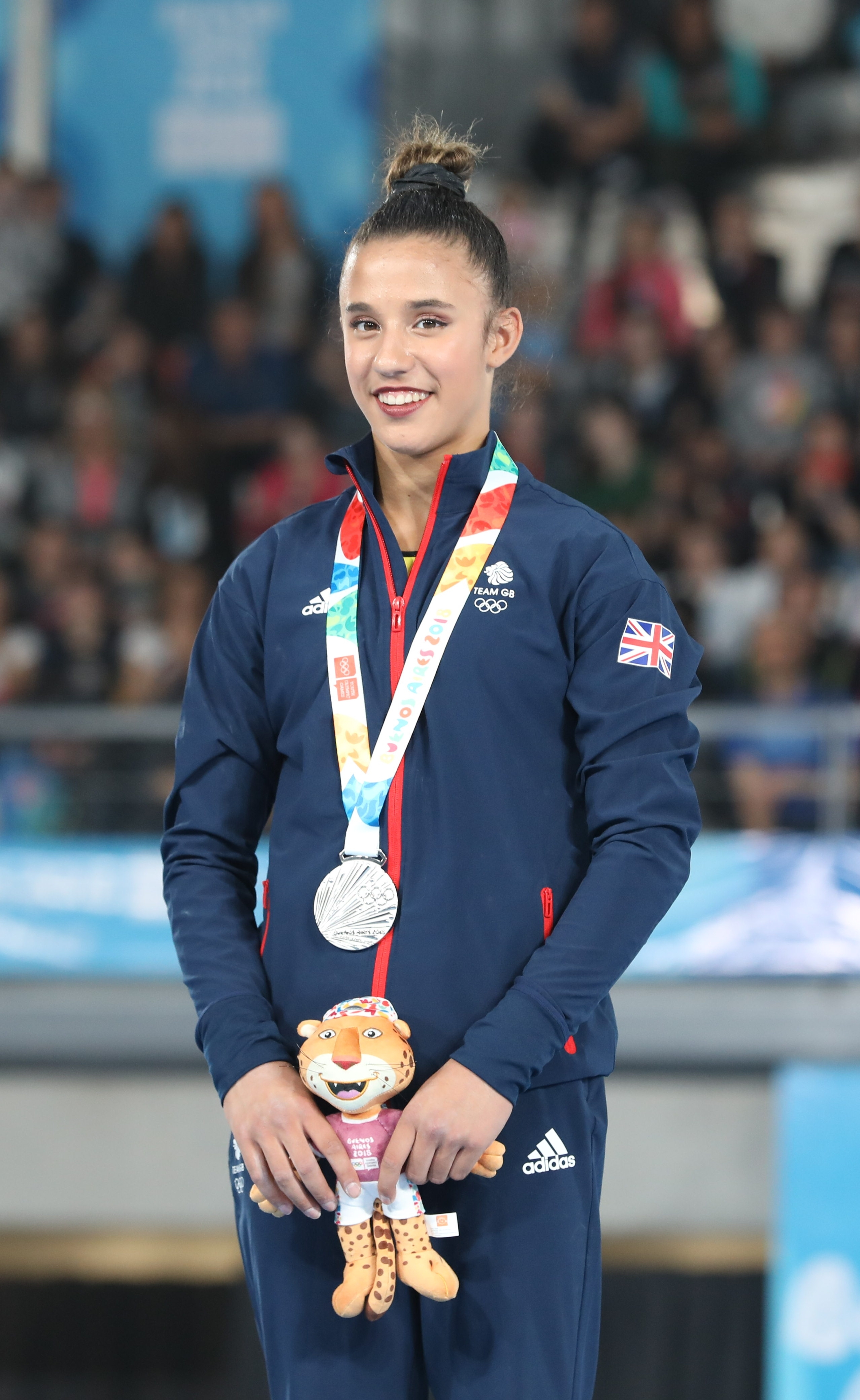 Victory ceremony of the girls' artistic gymnastics at the 2018 Summer Youth Olympics in Buenos Aires on 12 October 2018. Depicted: Amelie Morgan.